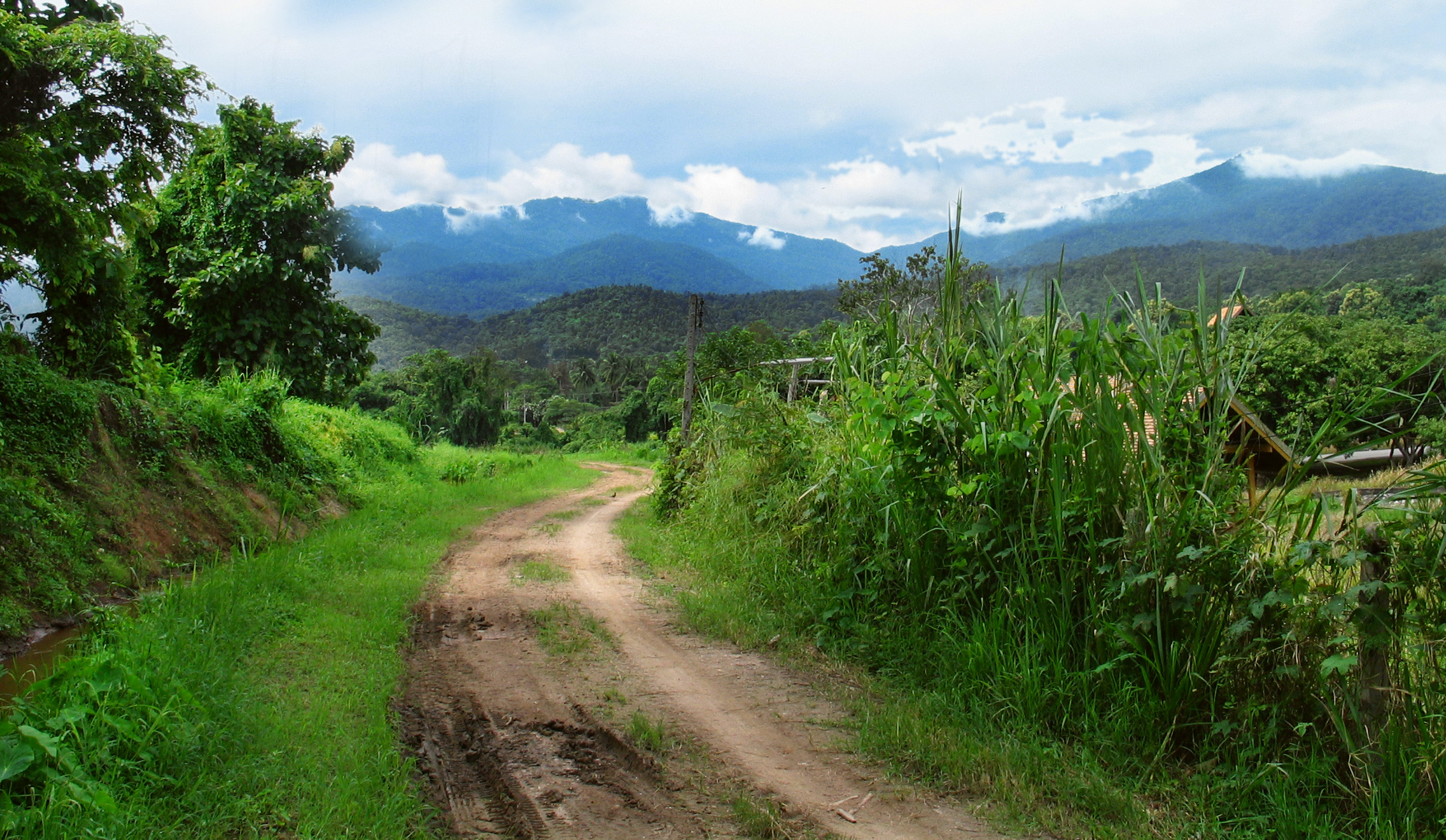 Doi Suthep National Park, Chiang Mai Province, northern Thailand